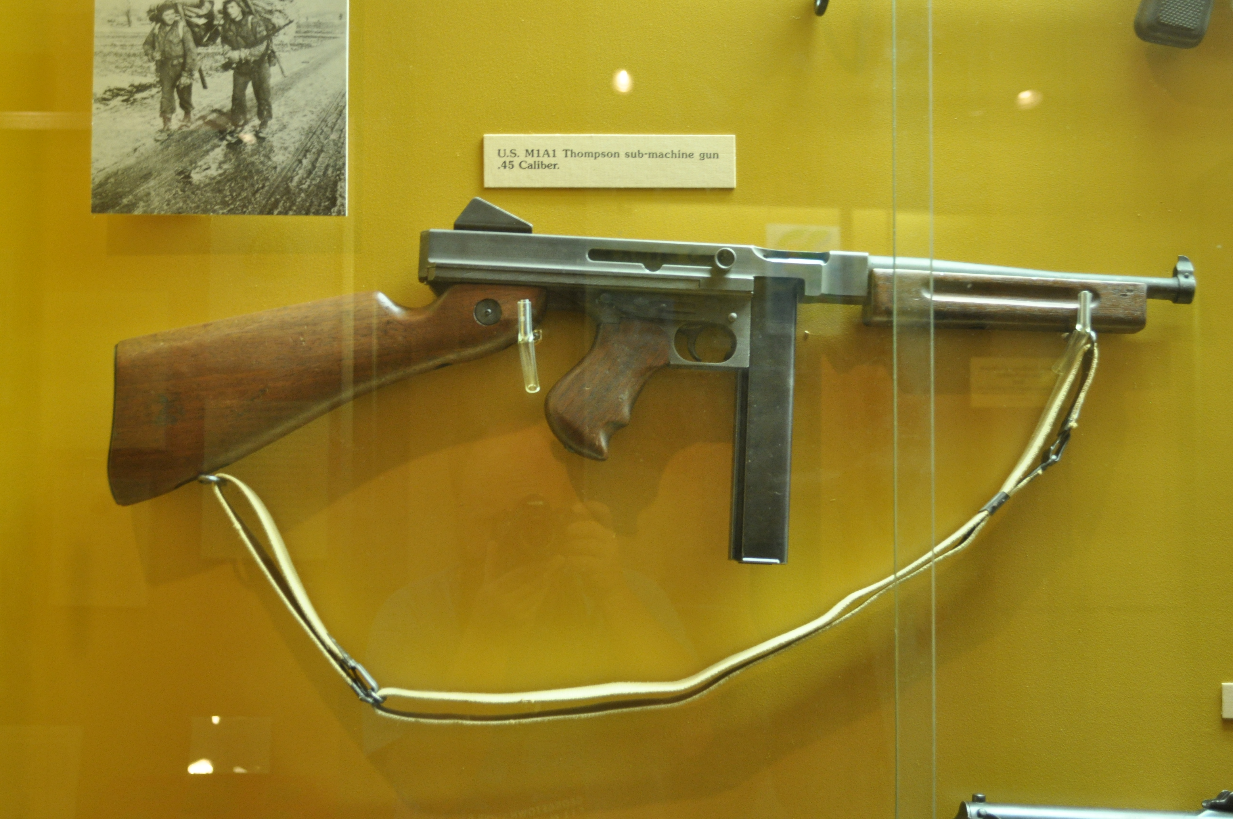 U.S. M1A1 Thompson submachine gun, Fort Lewis Military Museum, Fort Lewis, Washington, USA. Part of a display of the weapons of the Korean War.